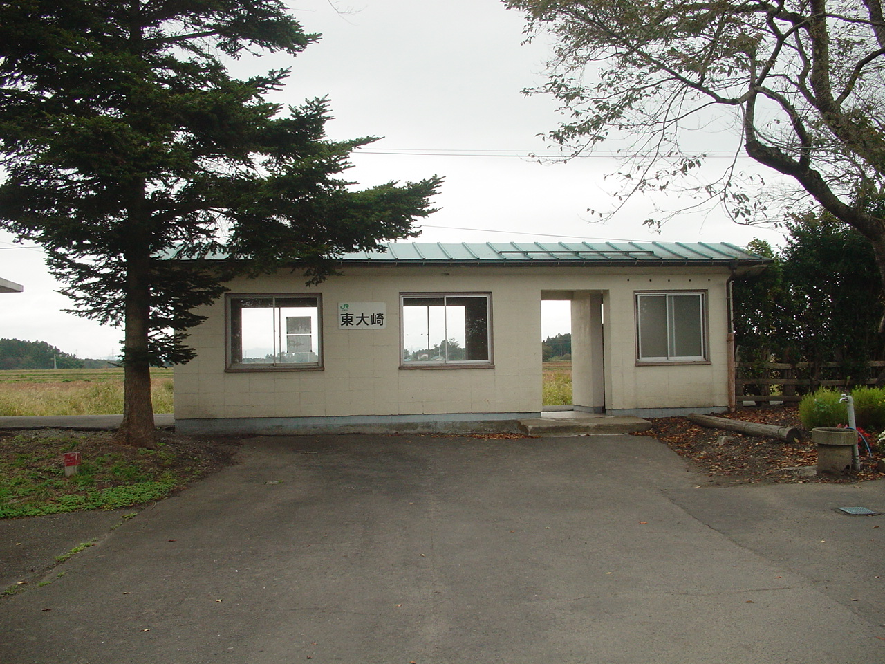 Higashi-Osaki Station